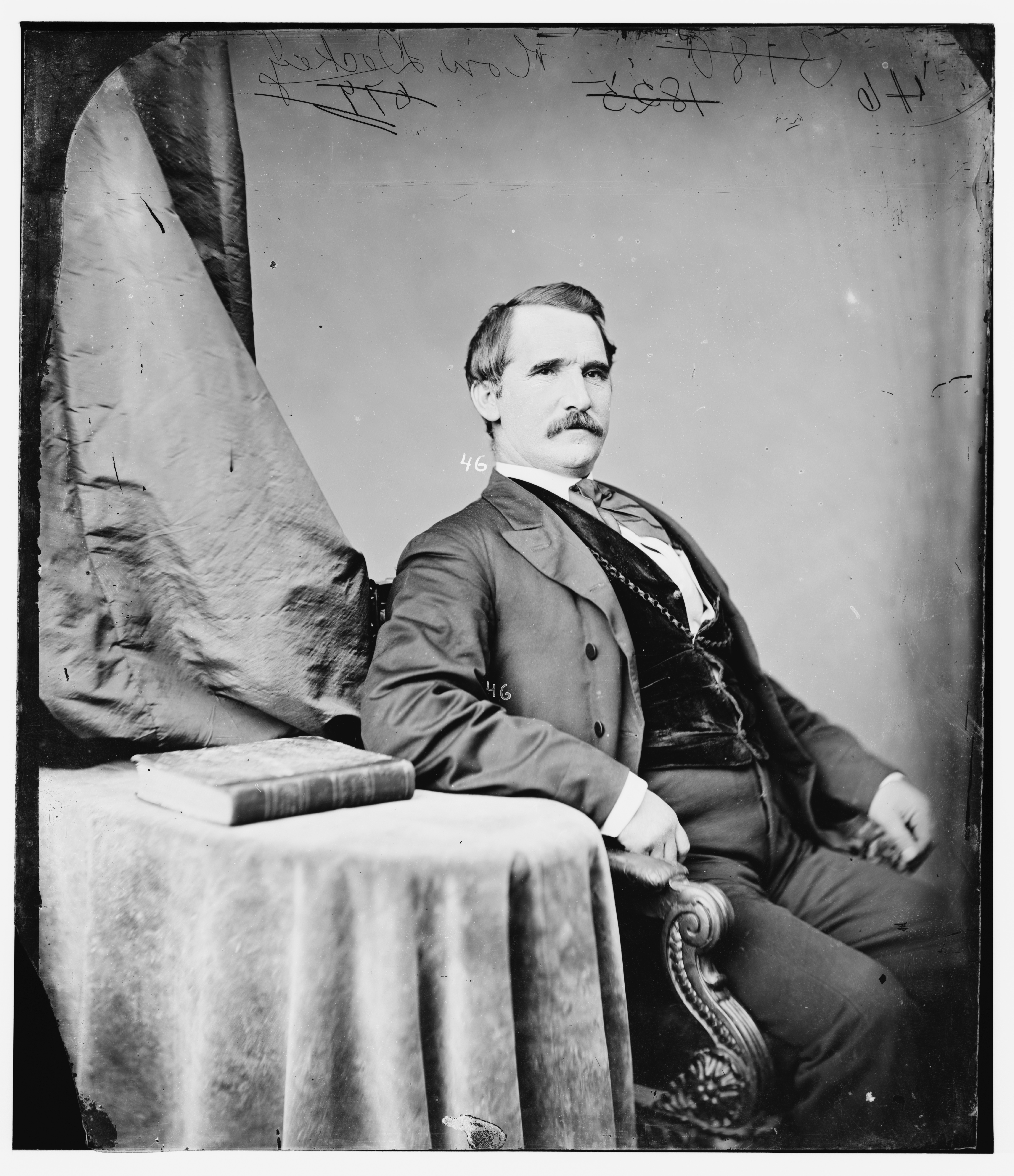 Oliver H. Dockery. Library of Congress description: "Hon. [Oliver Hart] Dockery of N.C."